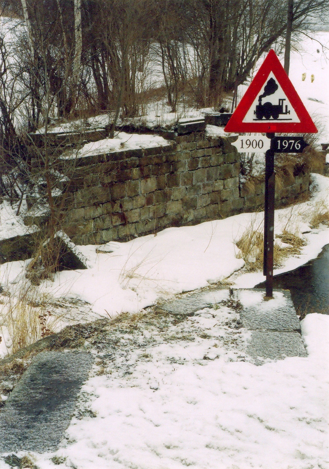 Commemorative sign next to former bridge over Oleška on abolished narrow gauge railway line Frydlant-Hermanice, Czech Republic